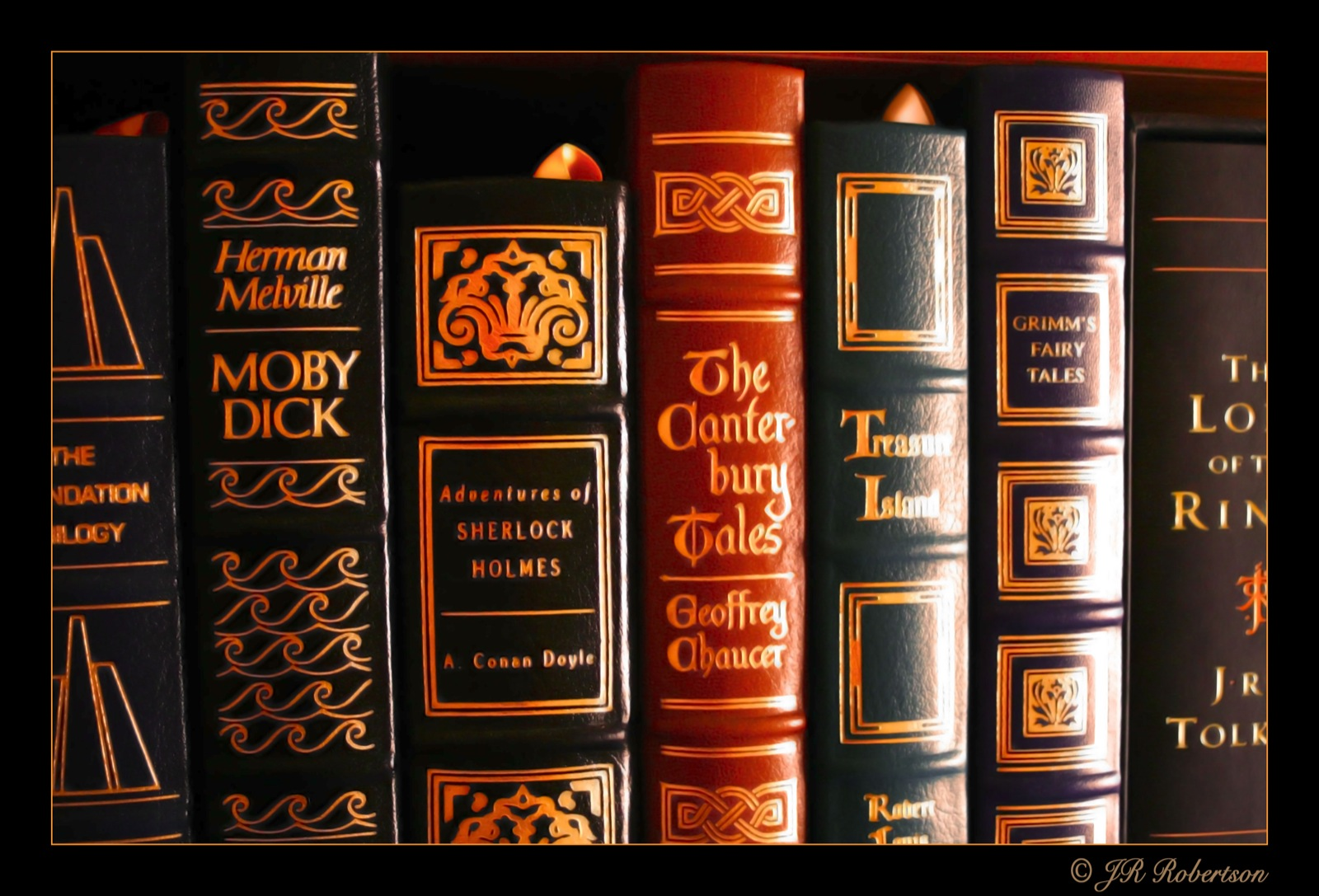 My son Michael has started a book collection. With his meager sum that he makes at Starbucks, he is amassing an Ebay purchased set of the classics. Moby Dick, Sherlock Holmes, The Canterbury Tales, Treasure Island, Grimm's Fairy Tales, The Lord of the Rings